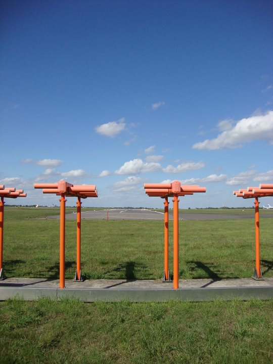 The runway of London Oxford Airport, Oxfordshire, UK.